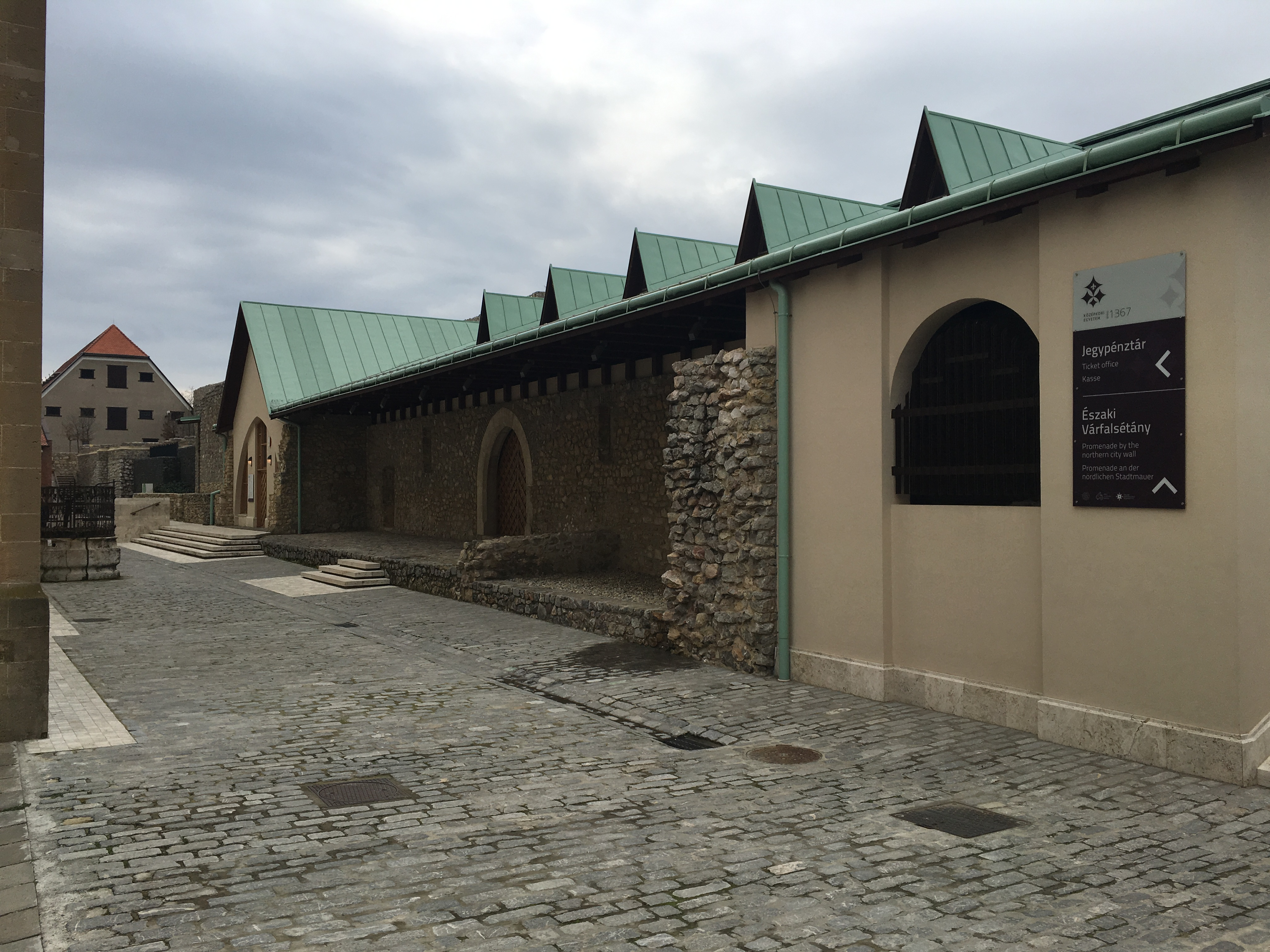 Northern castle wall. Medival University of Pecs southern side with main entrance(?)Északi várfalsétány